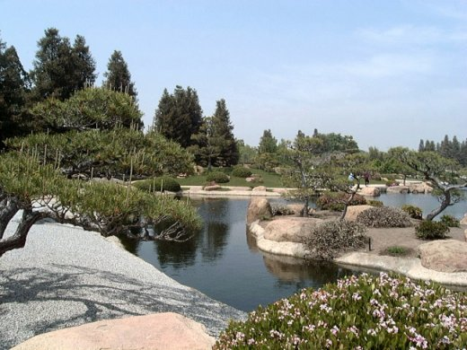 A photo of Japanese Garden (Van Nuys, CA), that was taken by me on 4-26-2001 Twin Jalanugraha.